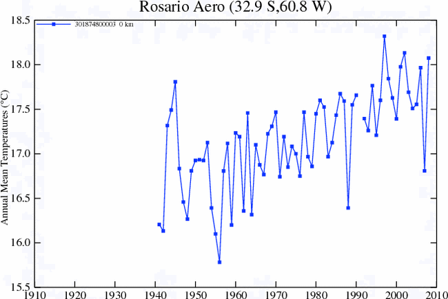 Termal graph of 1941 2009 air average temperaturas at city of Rosario, Santa fe province, Argentina